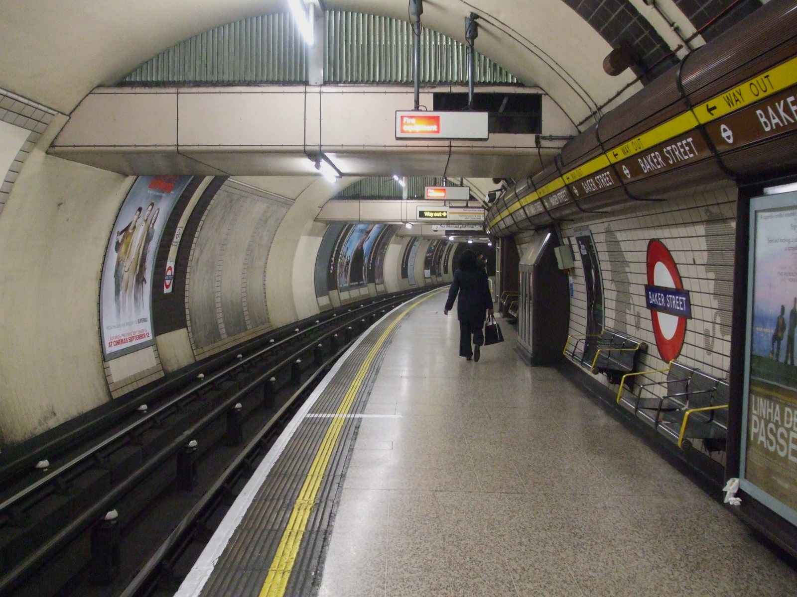 Baker Street tube station Bakerloo line southbound platform looking north